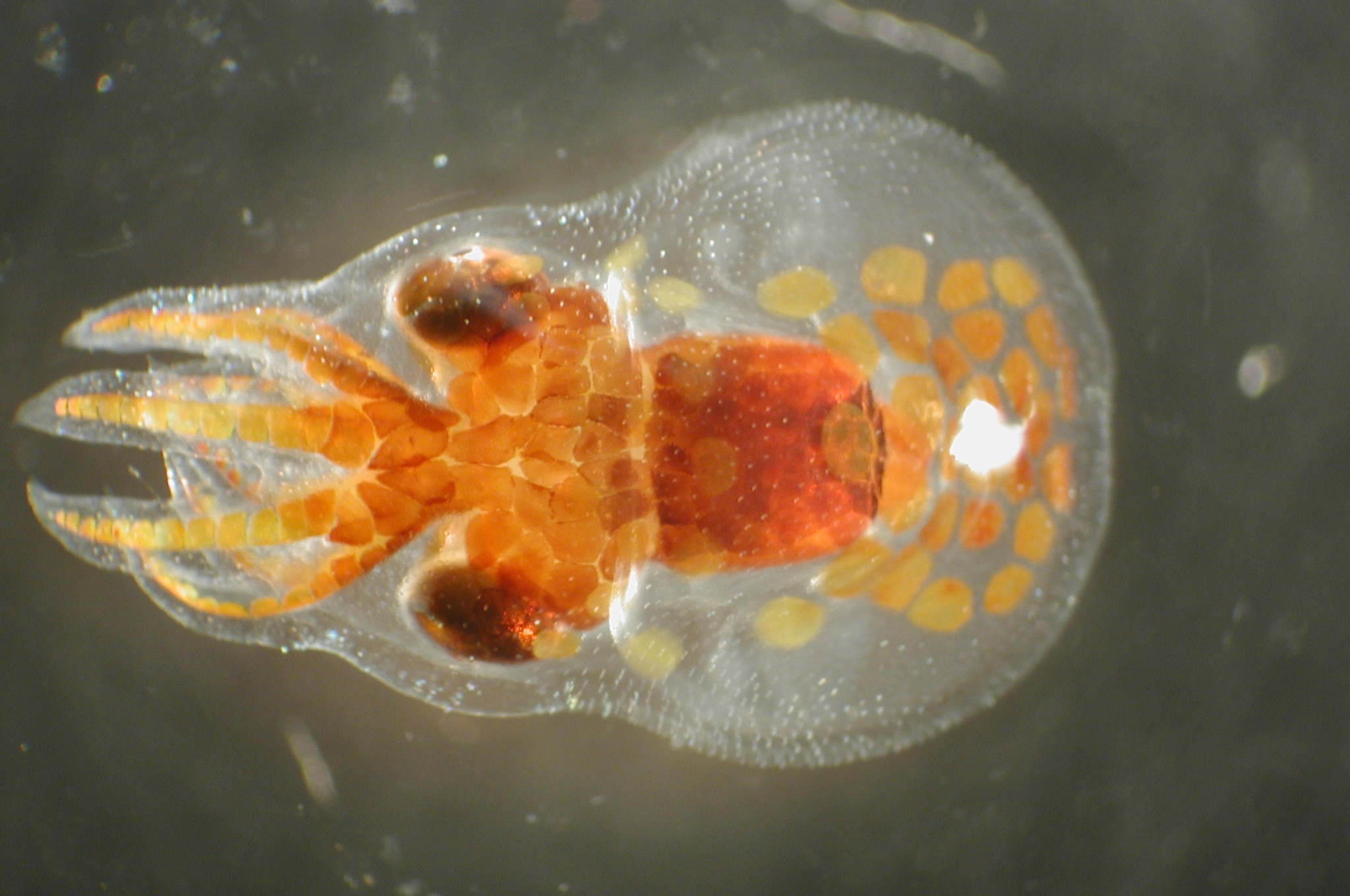 Zooplankton. Octopus.